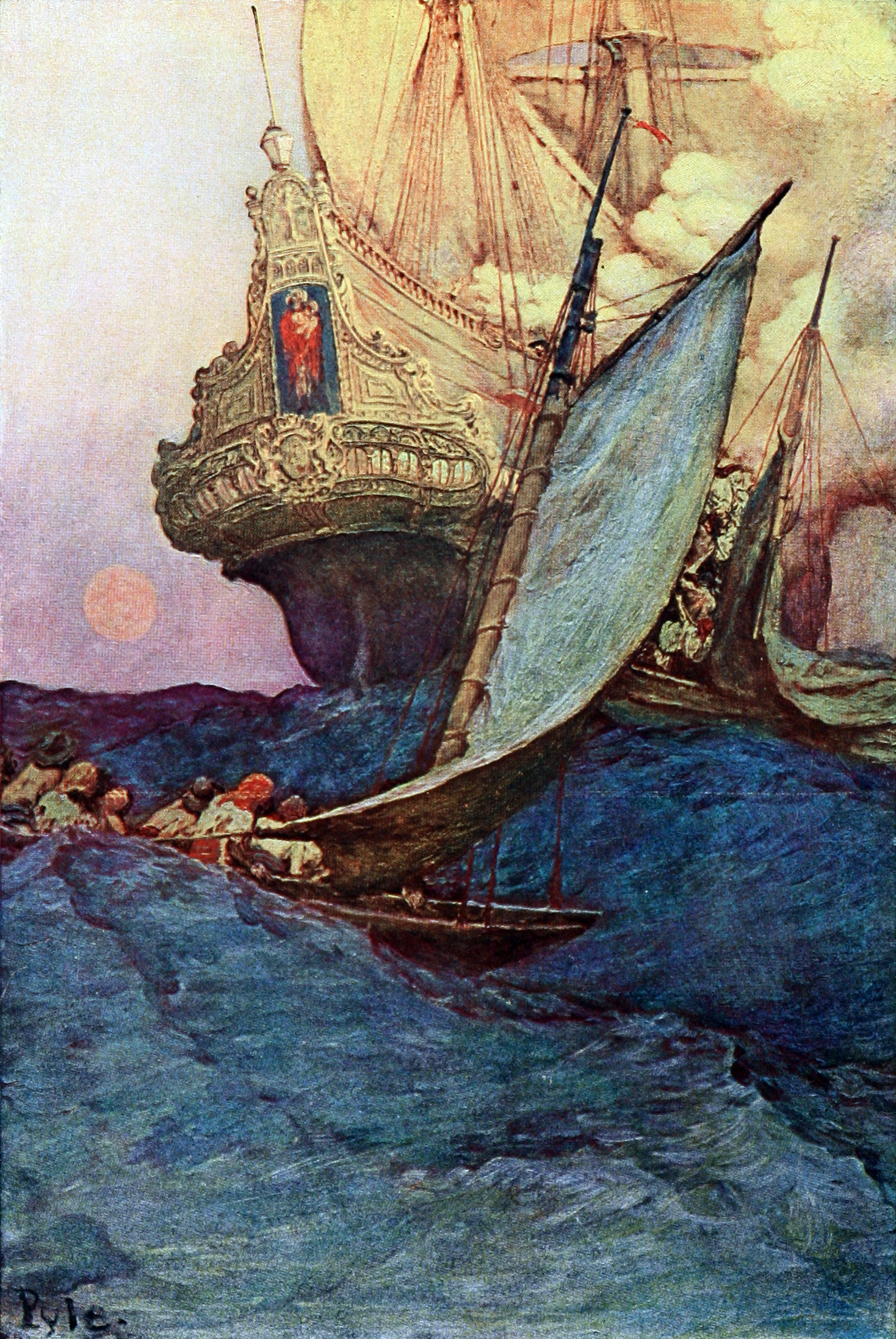 An Attack on a Galleon: illustration of pirates approaching a ship